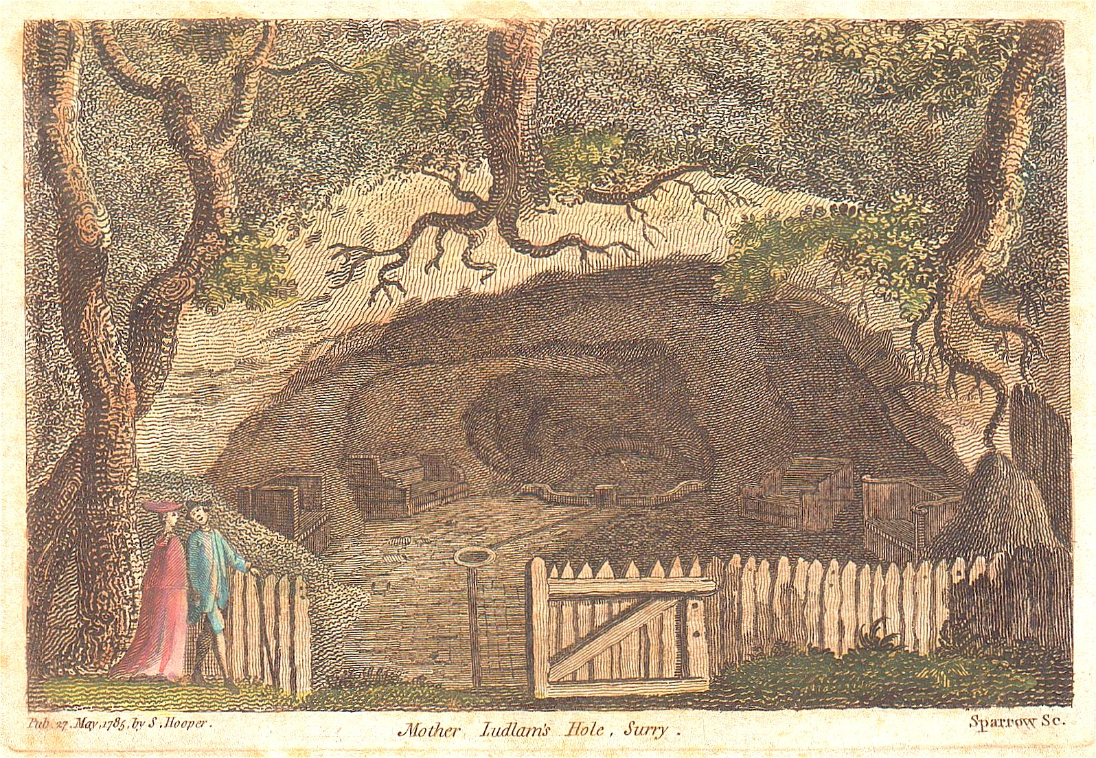 Mother Ludlam's Cave, Farnham Surrey. 1785 print from earlier (1773) original.